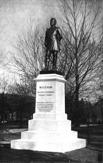 Picture of the statue dedicated to Virginia political and military figure Williams Wickham